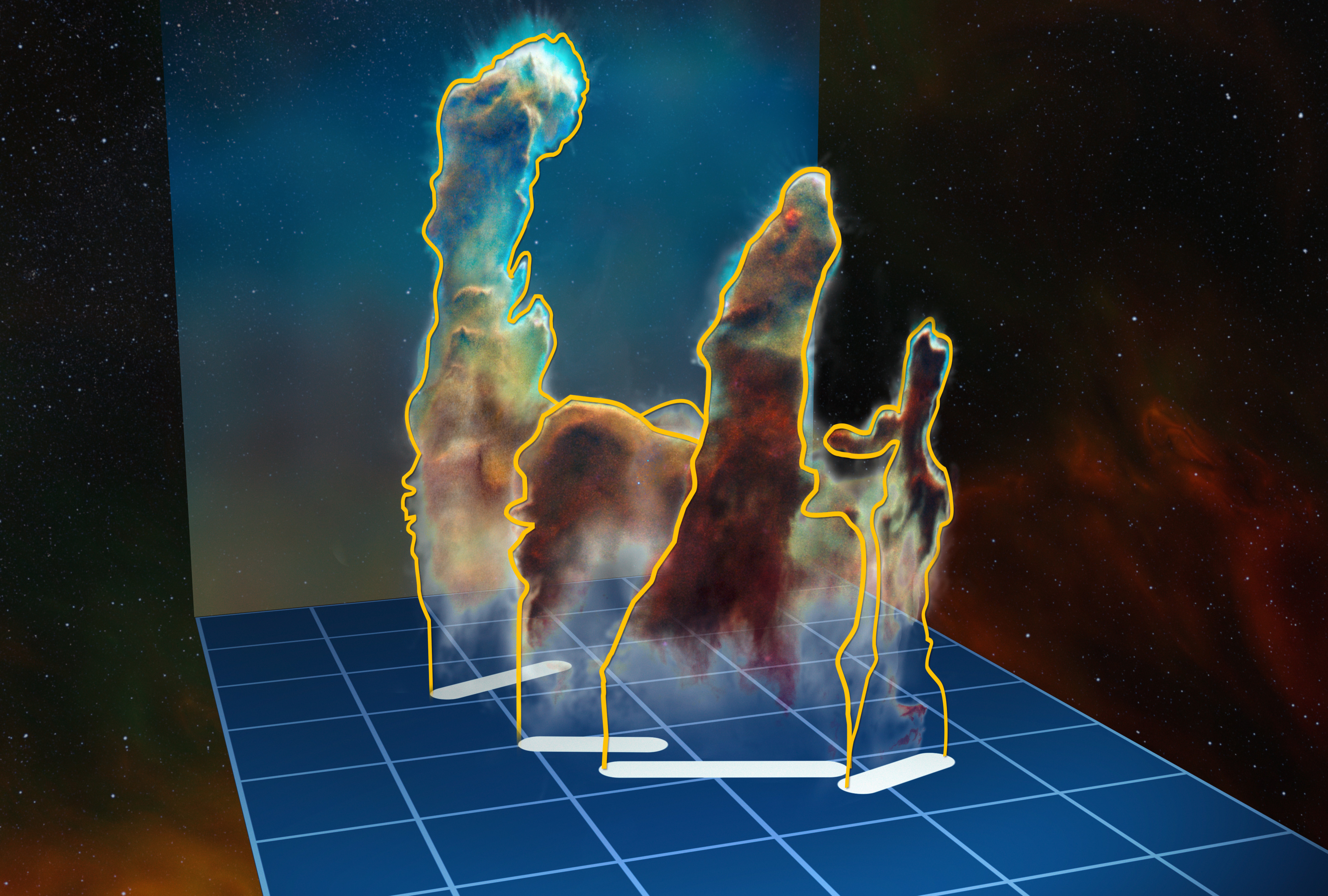 This visualisation of the three-dimensional structure of the Pillars of Creation within the star formation region Messier 16 (also called the Eagle Nebula) is based on new observations of the object using the MUSE instrument on ESO’s Very Large Telescope in Chile. The pillars actually consist of several distinct pieces on either side of the star cluster NGC 6611. In this illustration, the relative distance between the pillars along the line of sight is not to scale.